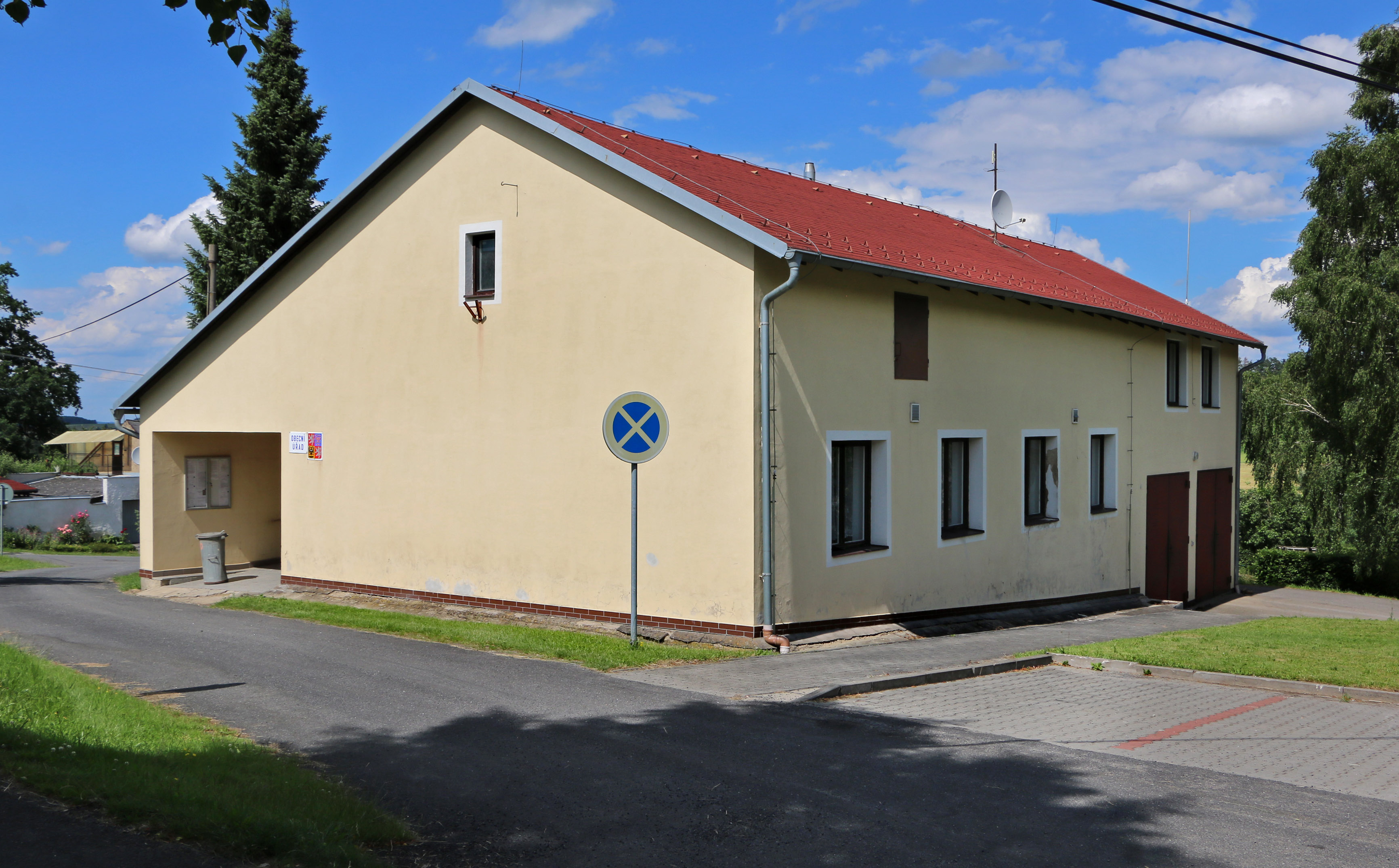 Municipal office in Cerekvička, part of Cerekvička-Rosice village, Czech Republic.